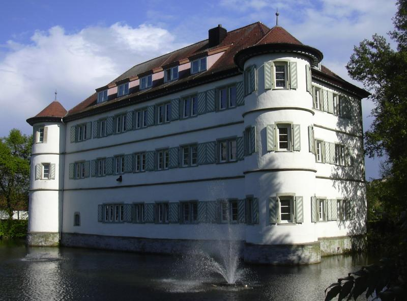 Castle in Bad Rappenau, Germany